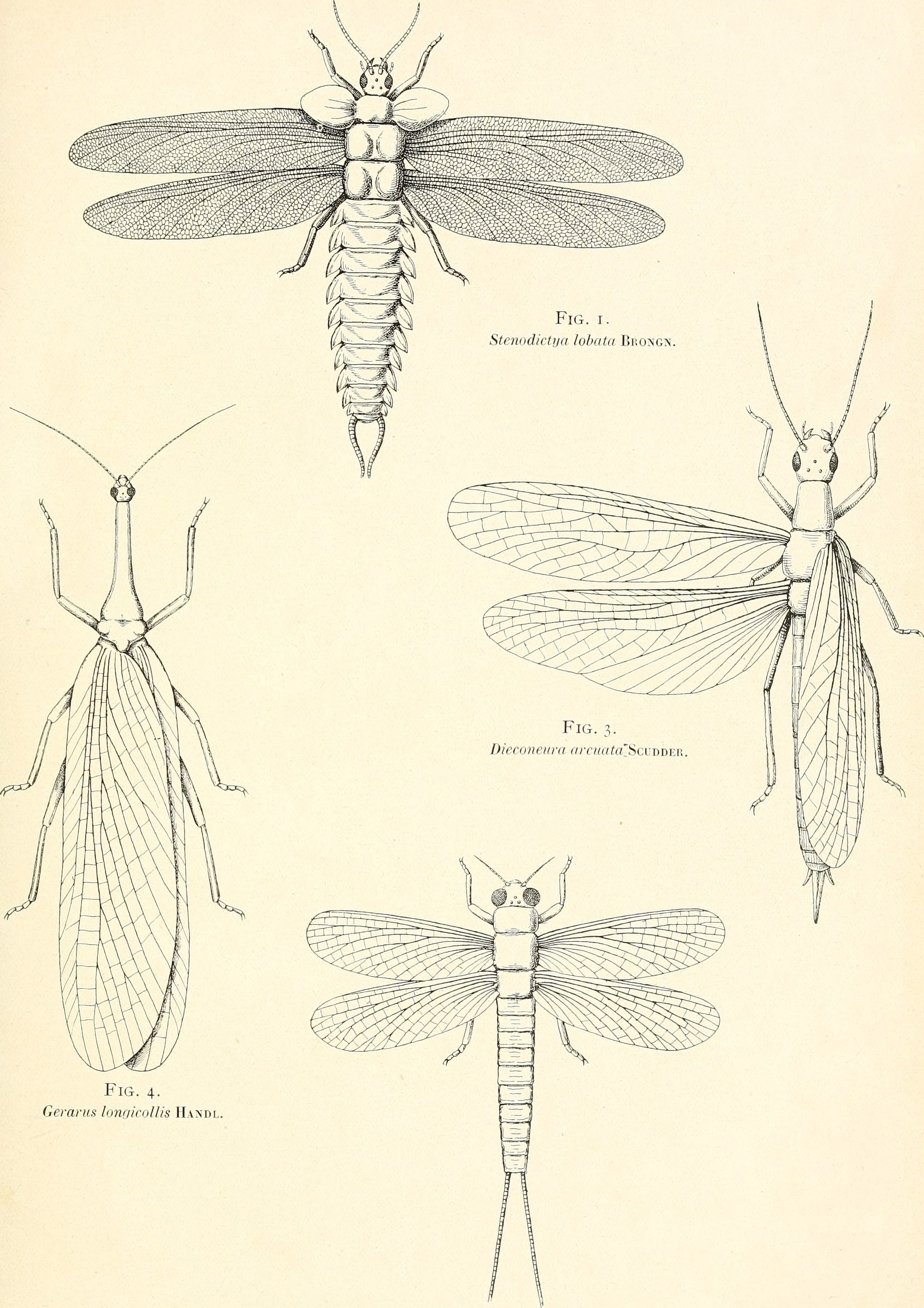 Title: 1er Congrès international d'entomologie, Bruxelles, 1-6 août, 1910 .. Year: 1911-12 (1910s) Authors: International Congress of Entomology (1st : 1910 : Brussels) Subjects: Entomology; Insects Publisher: Bruxelles; Hayez : Imprimeur des Académies Royales Text Appearing Before Image: /er CONGRÈS INTERNATIONAL D'ENTOMOLOGIE, 1910. - 2« parti PI. VI. Text Appearing After Image: FiG. 4. Gérants lonoicollis Handl. FiG. 2. Eubleptus Danielsi Handl. A. HANDLIRSCH. - UEBER FOSSILE INSEKTEN. — I.